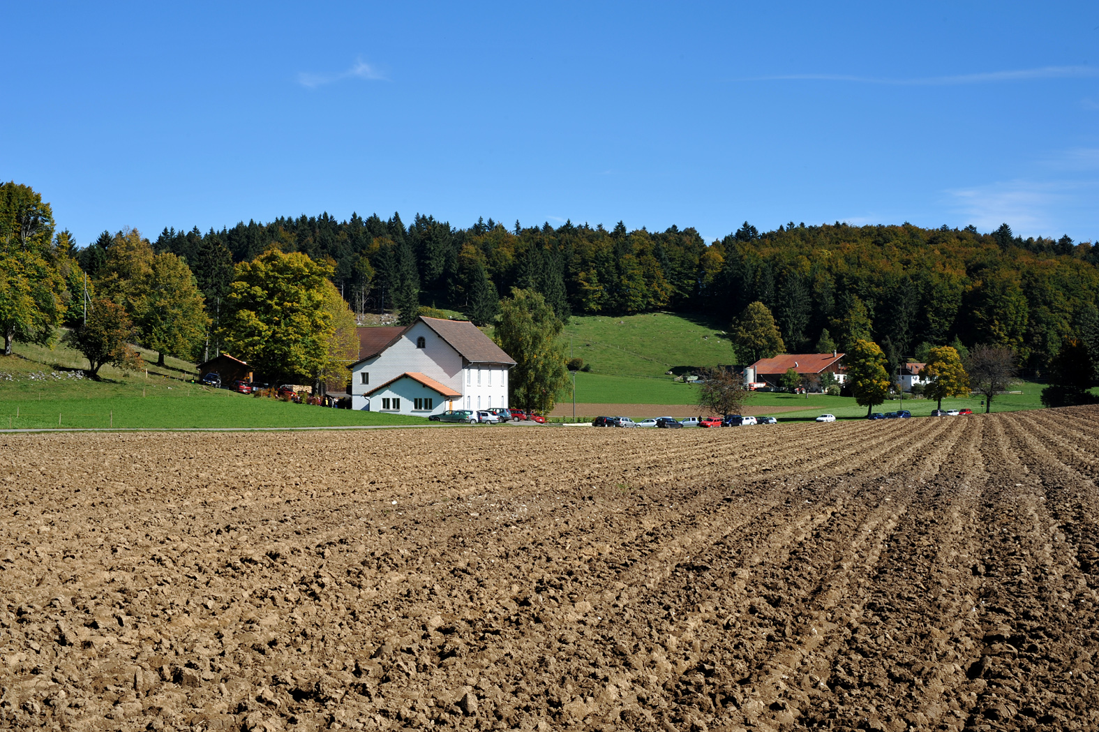 Library of the „Swiss Mennonite Conference“ in Le Jean Guy above Corgémont; Bern, Switzerland.